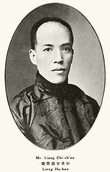 Liang Qichao (1873-1929)